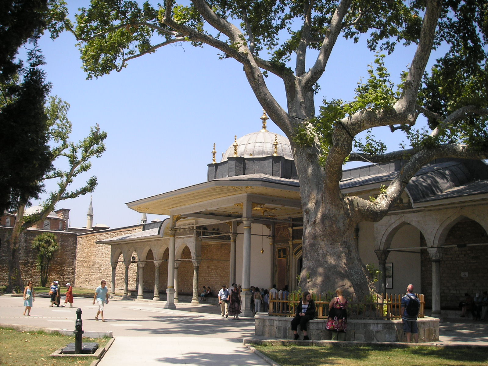 The Gate of Felicity in the second courtyard of Topkapi Palace in Istanbul. Imperial audiences by the sultan were held here.